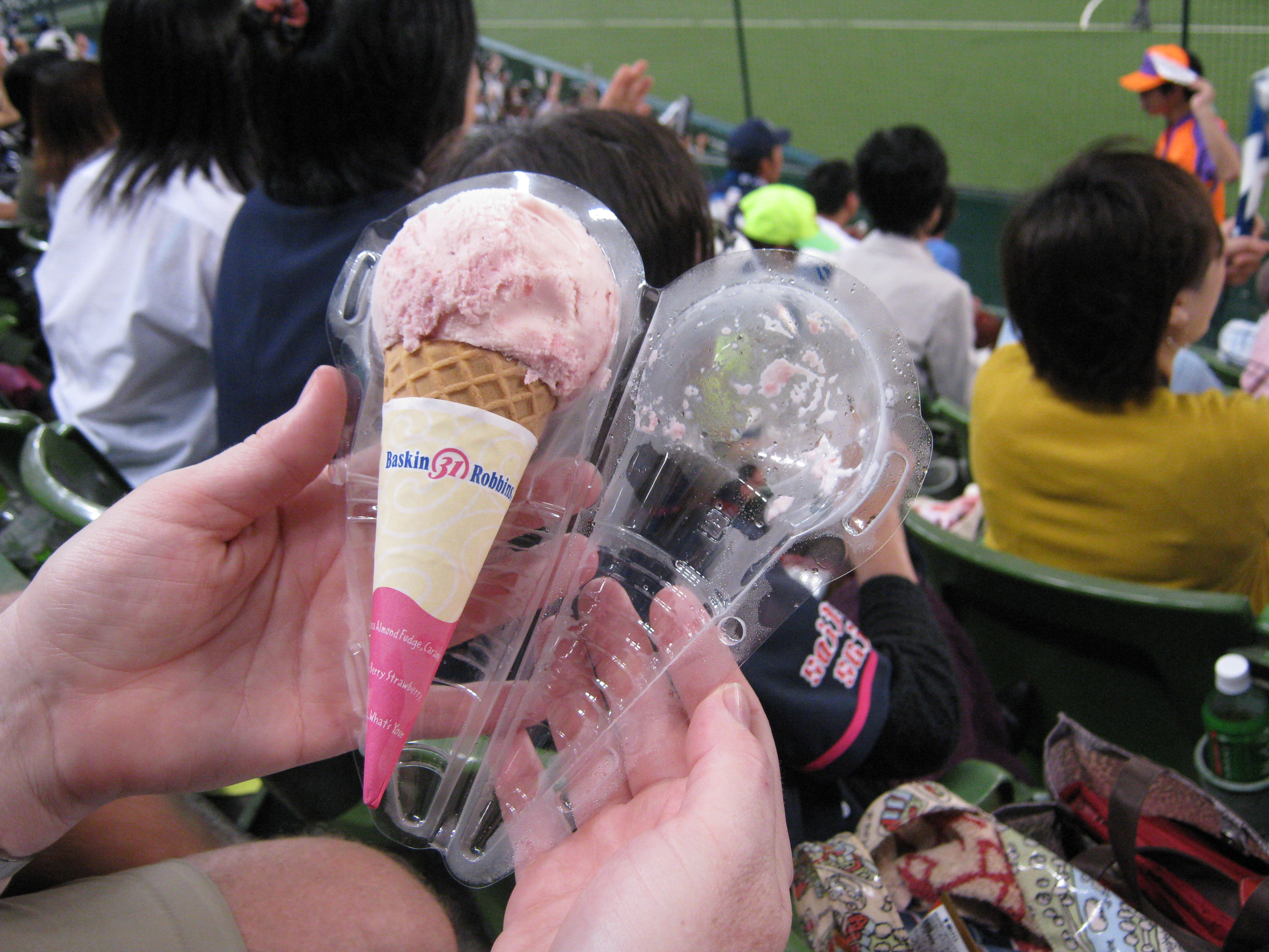 Uploaded through Desktop Flickr Organizer .